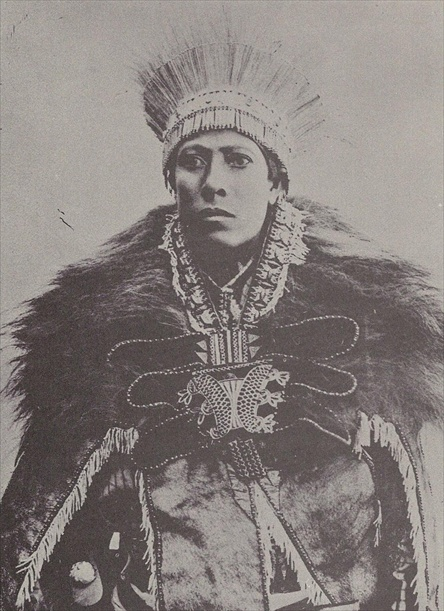 Balcha Aba Nefso